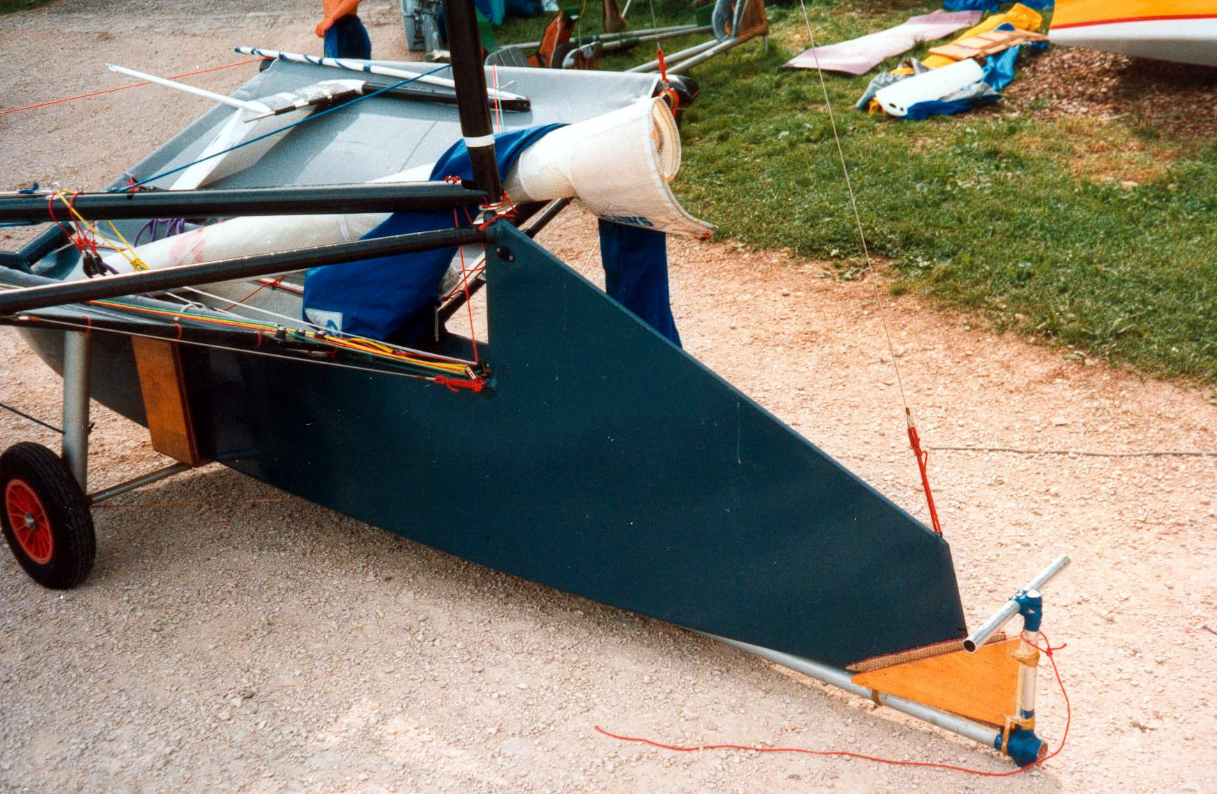 Skippy II Roger Angell